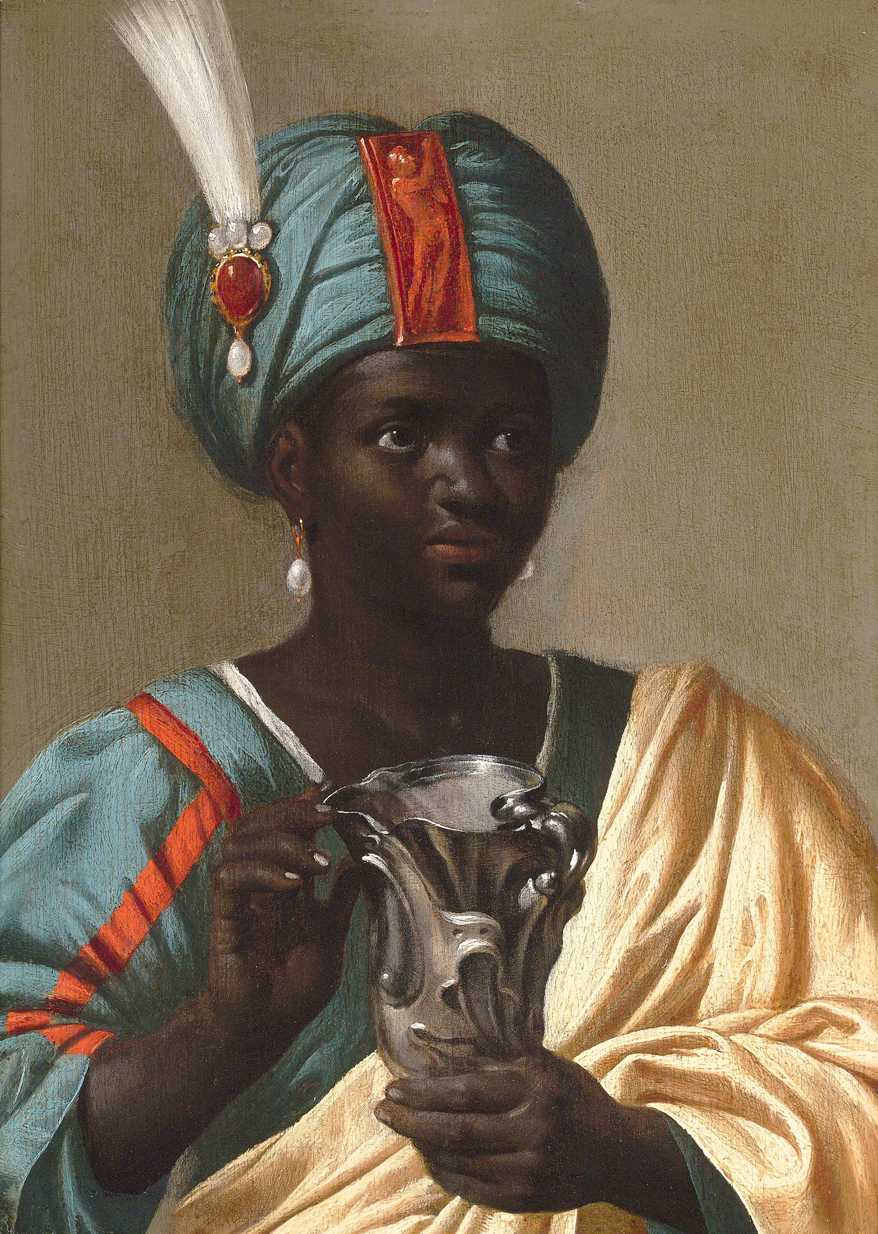 Caspar by Jan van Bijlert. Oil on panel. Circa 1640-50